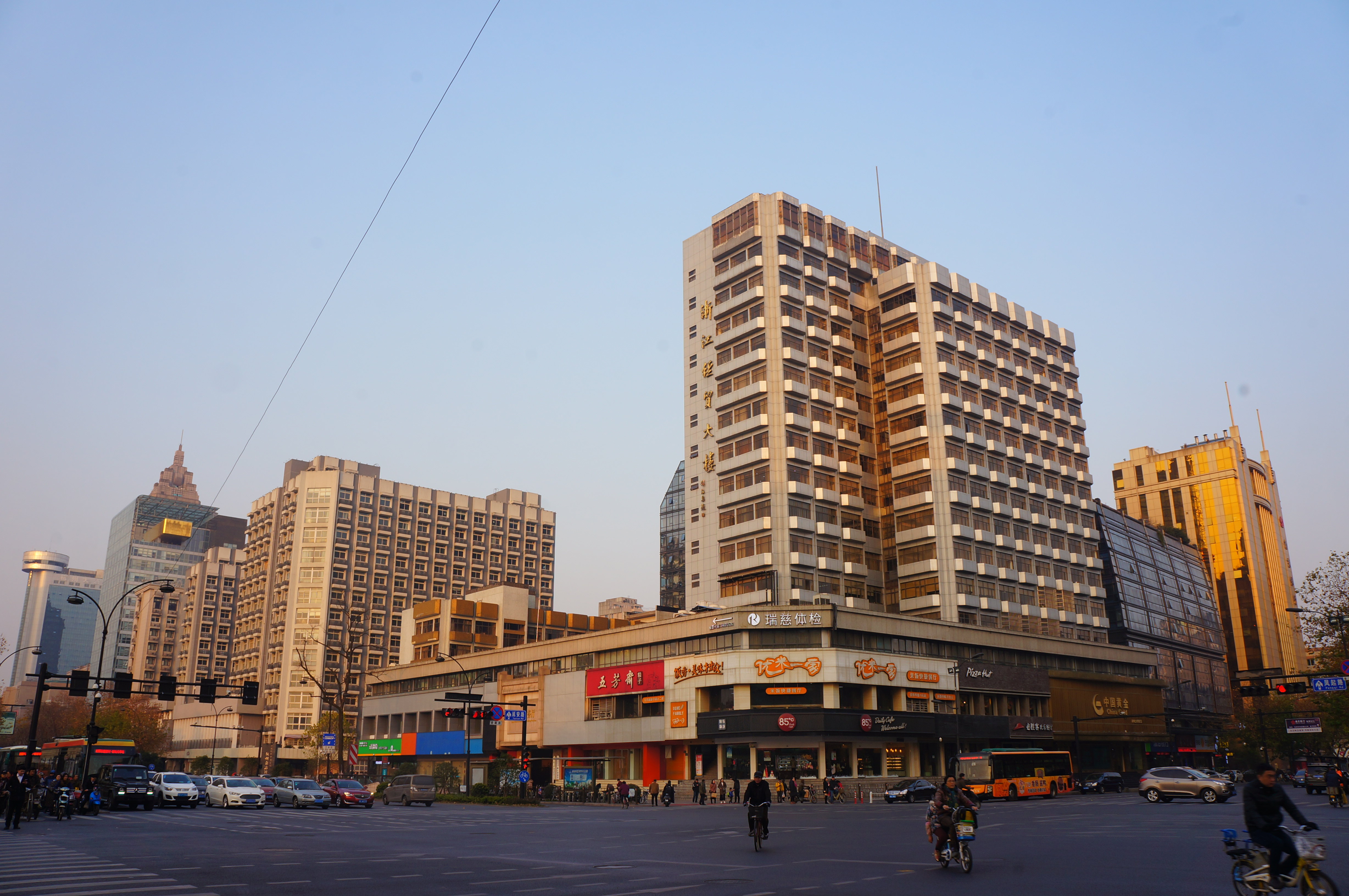 201712 HQ of Dep of Com of ZHJ Province